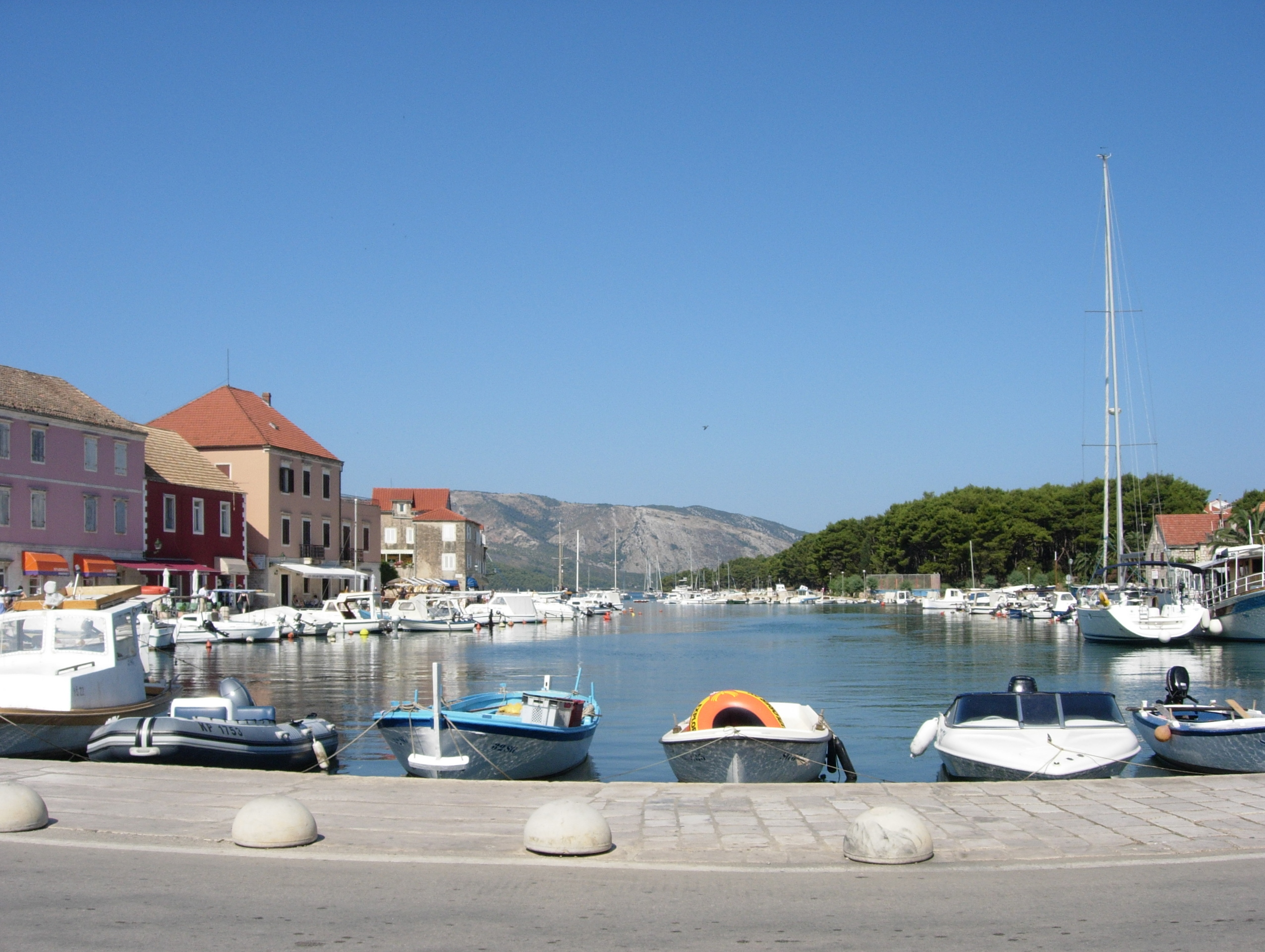 Bay of Stari Grad, seen from the market place.